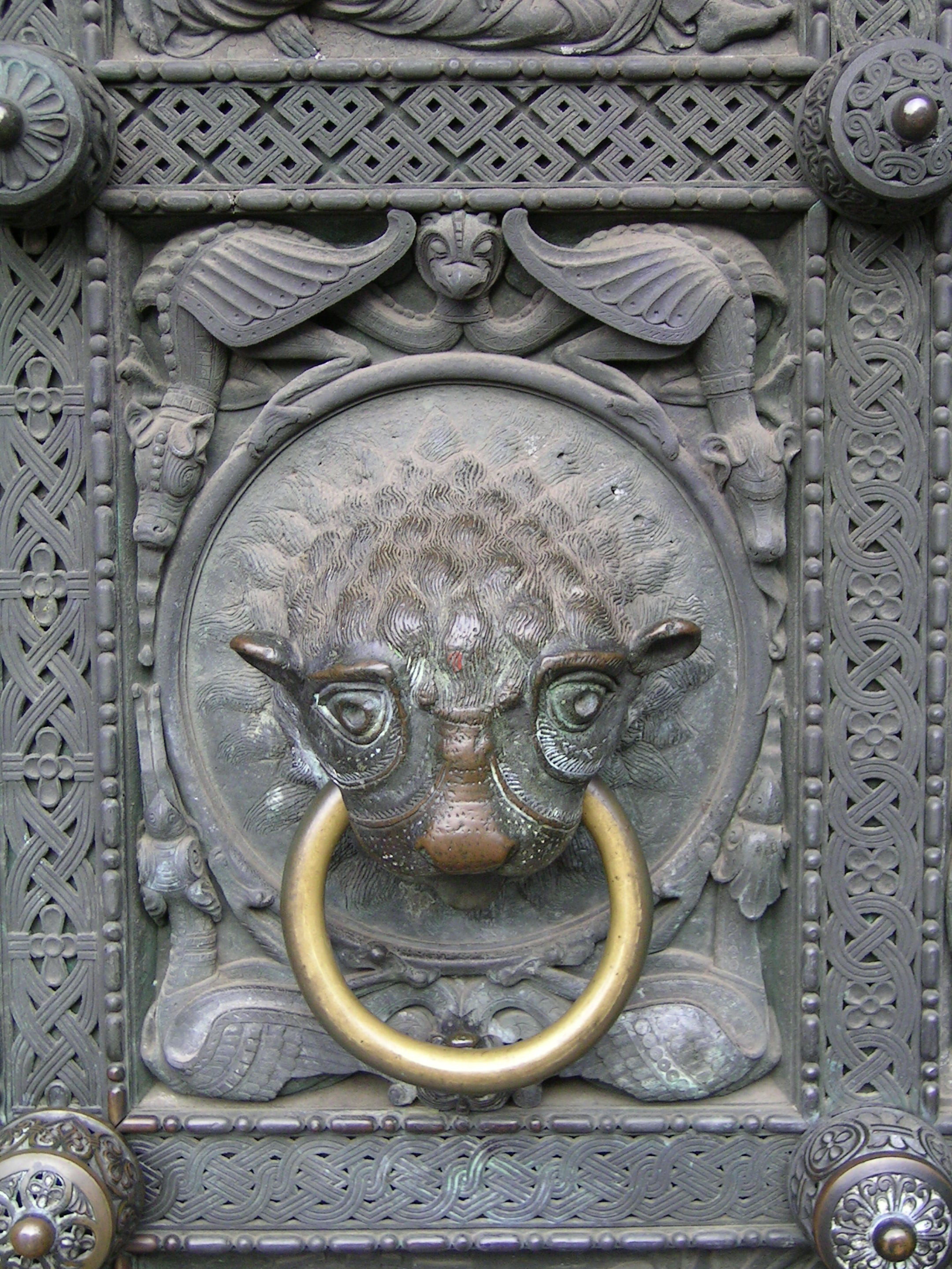 Right door of Petri Dom, Bremen, grip of the right door leaf User:Tarawneh/rami